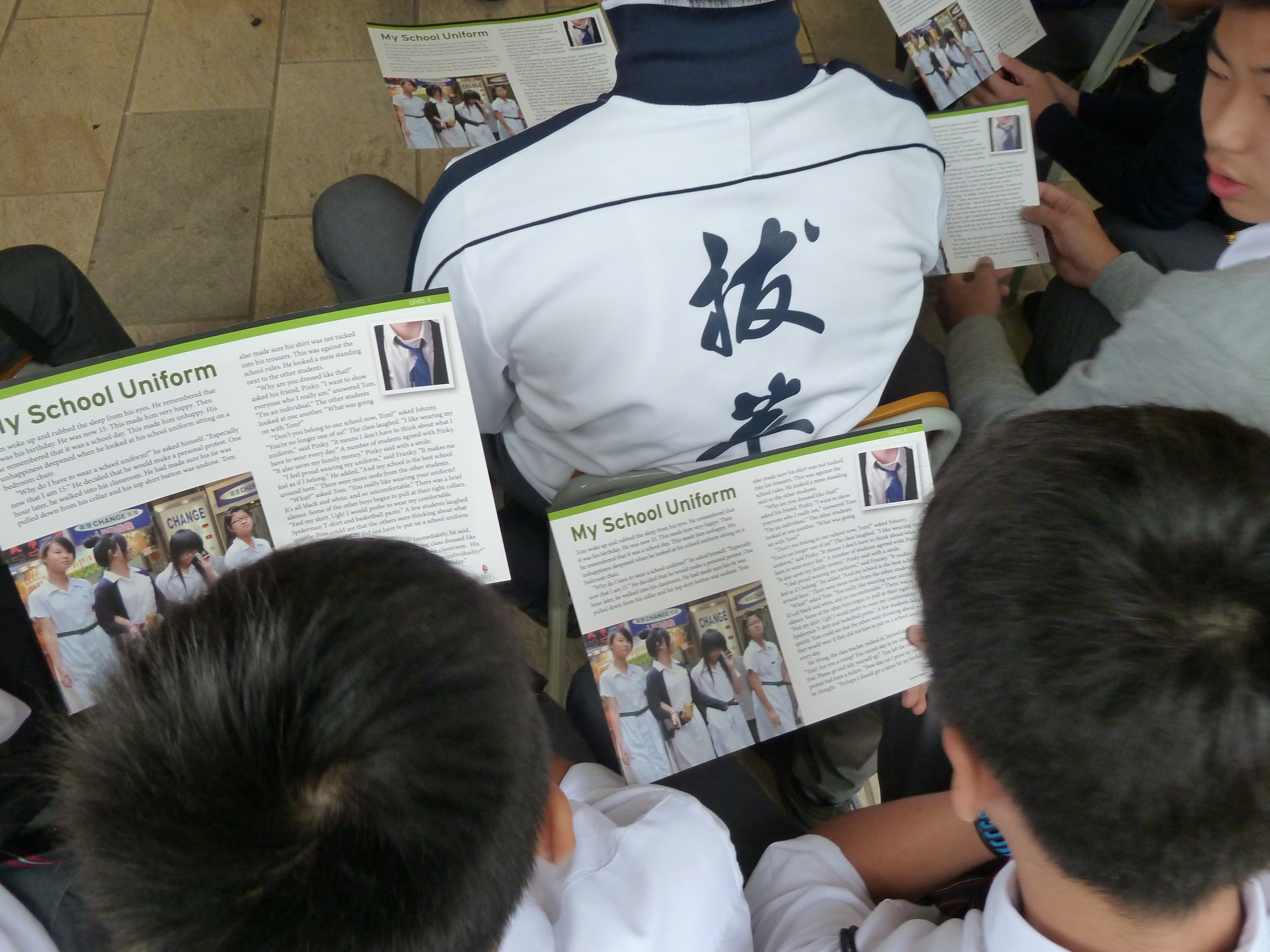 Students participating in a Levelled Reading Card Lesson